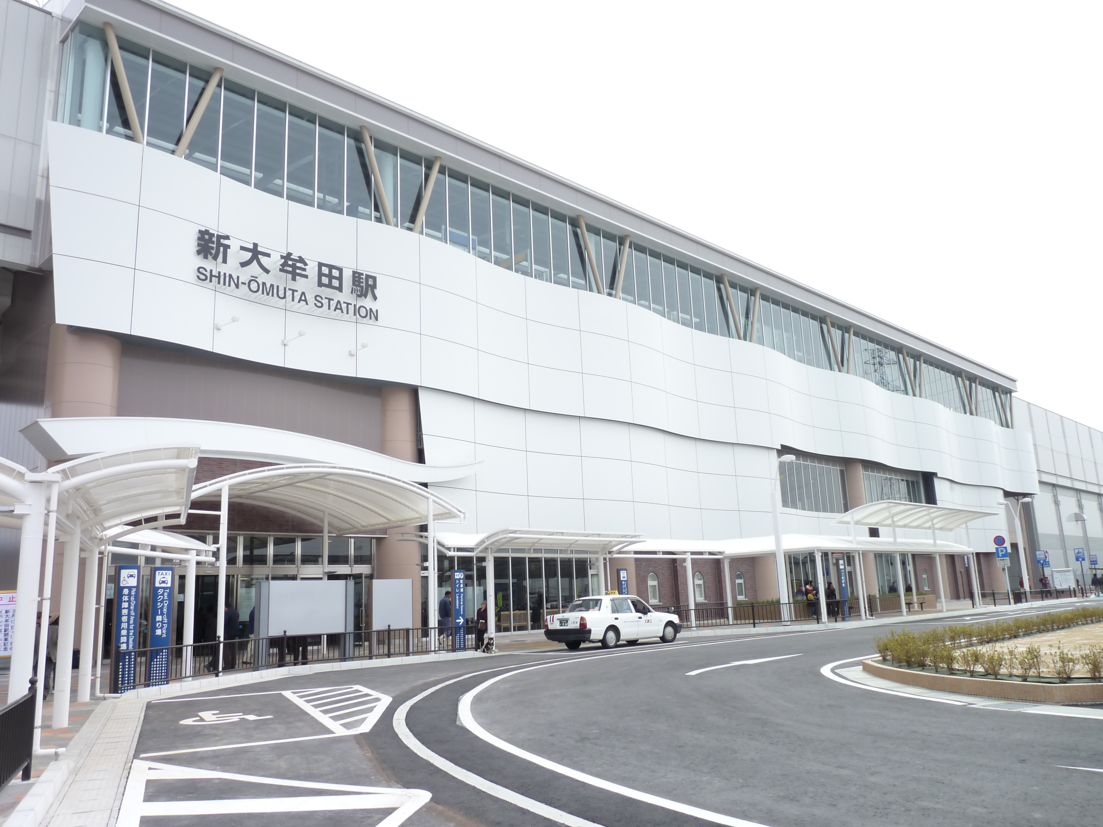 Shin-Omuta Station, Kyushu Shinkansen